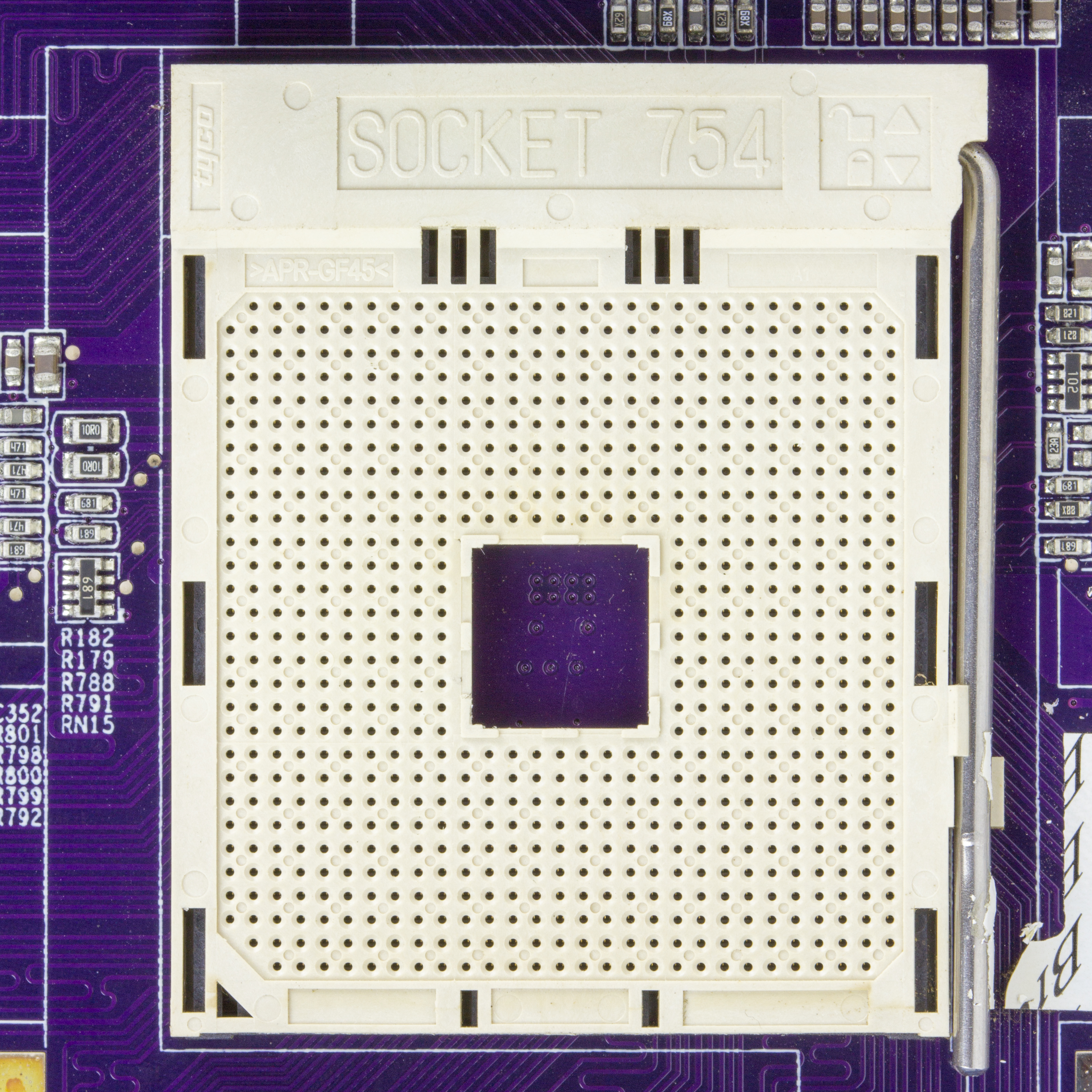 Elitegroup 761GX-M754-4654.jpg - Socket 754